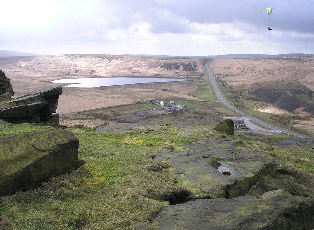 The A62 road across the Pennines at Standedge, in a view seen from the top of Pule Hill looking west. The Standedge cutting and Redbrook reservoir can be seen. For more information see the Wikipedia article Standedge.